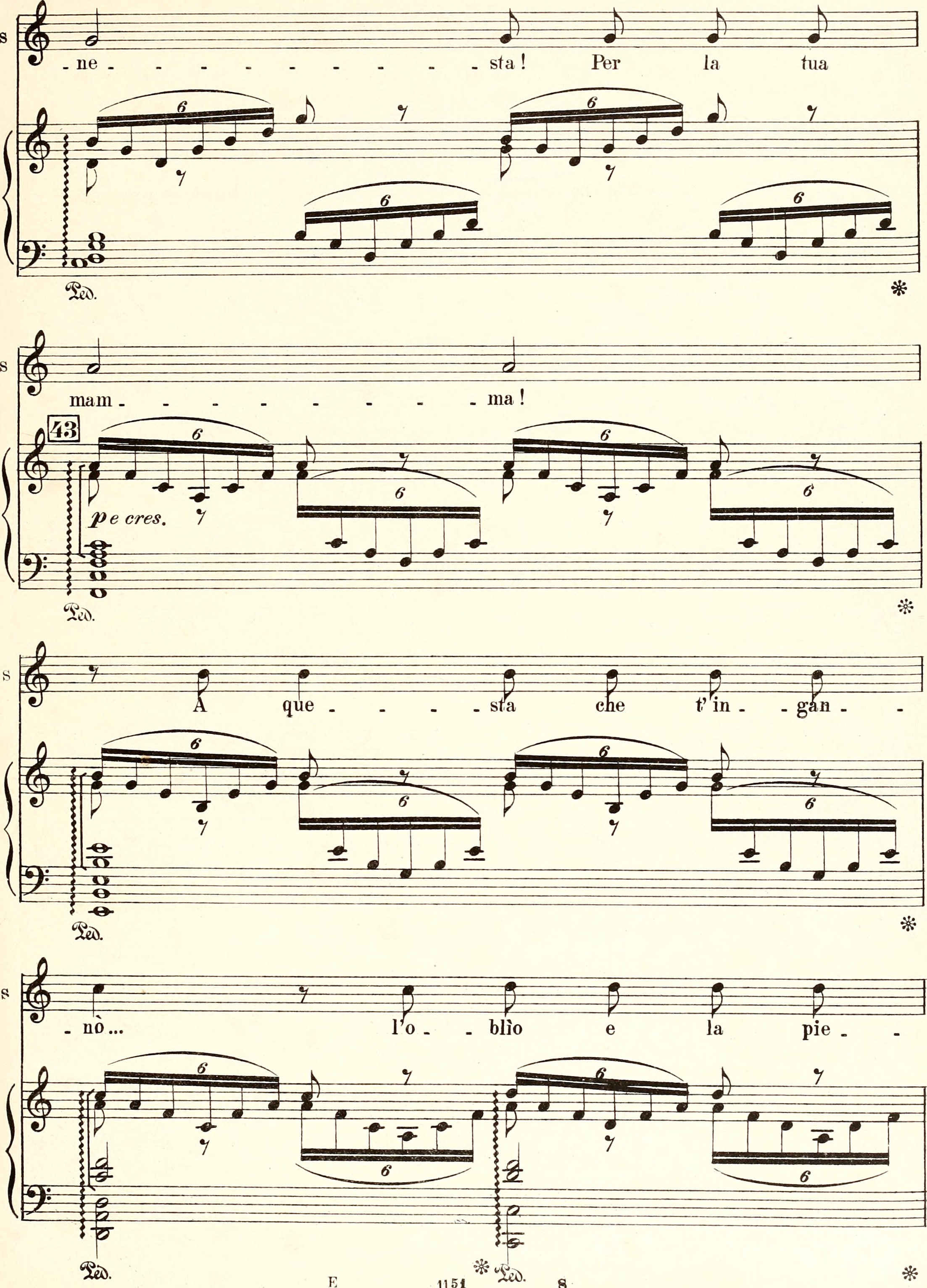 Title: Siberia : dramma in tre atti Year: 1903 (1900s) Authors: Giordano, Umberto, 1867-1948 Illica, Luigi, 1857-1919 Delli Ponti, Raffaele, 1864-1936 Subjects: Operas Publisher: Milano : Edoardo Sonzogno Text Appearing Before Image: 77 Text Appearing After Image: 1151 ^- 8